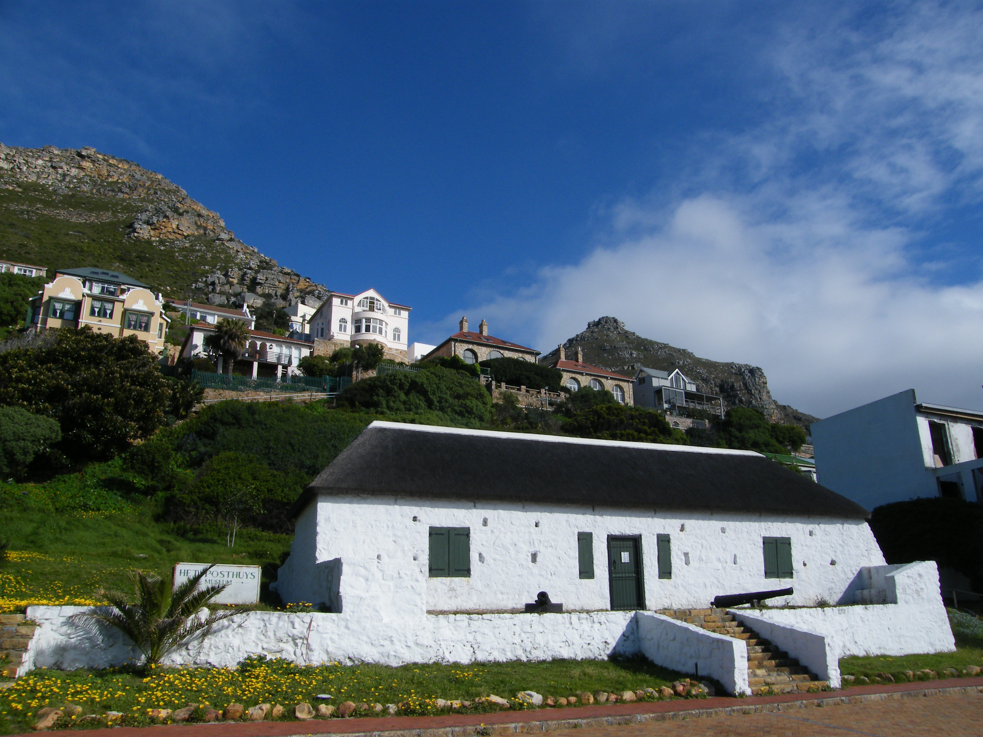 Posthuys This media shows a South African Protected Site with SAHRA file reference 9/2/081/0004.